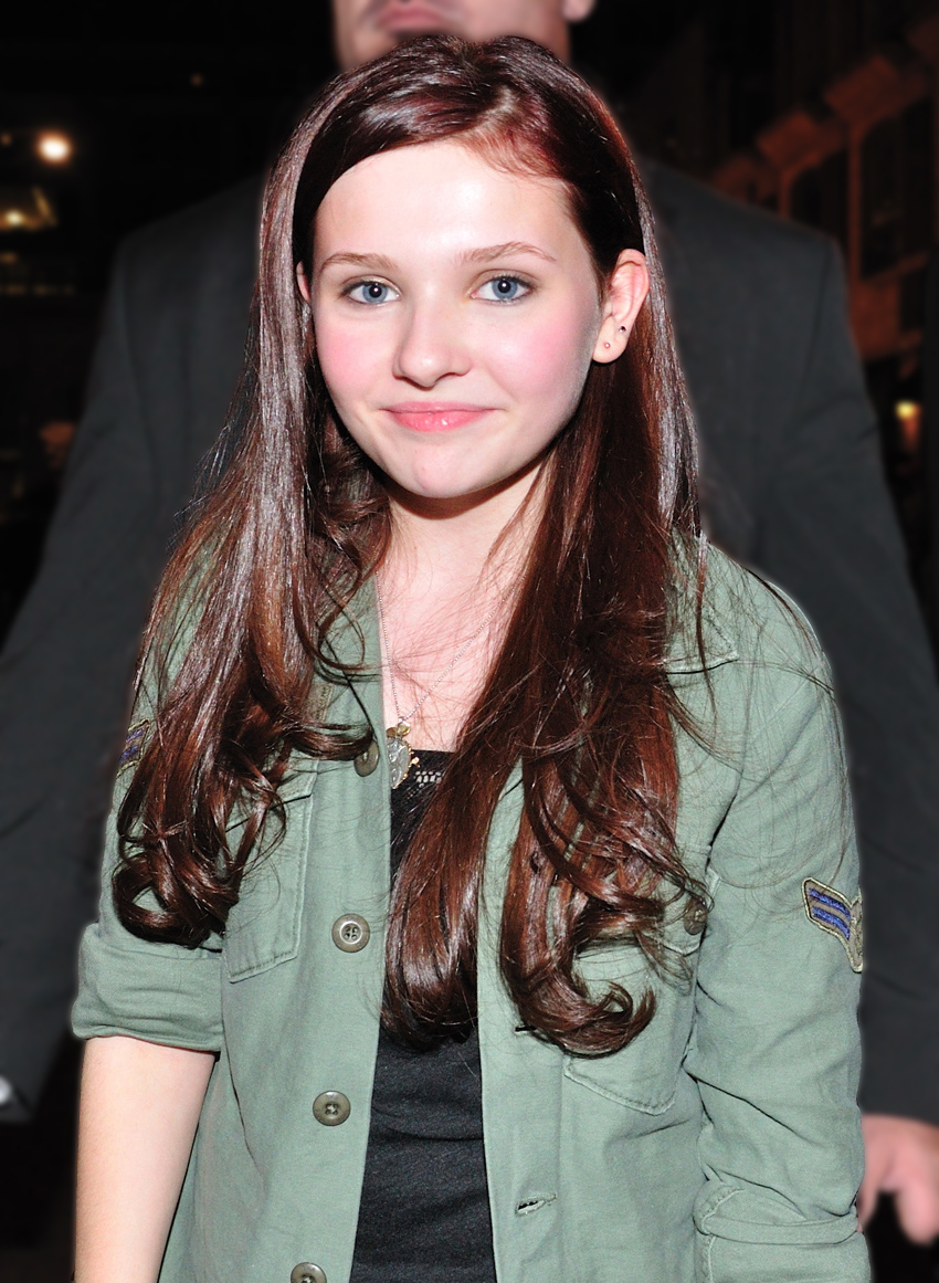 Abigail Breslin at a party during the 2010 Toronto International Film Festival depicted person: Abigail Breslin (age: 14.42)